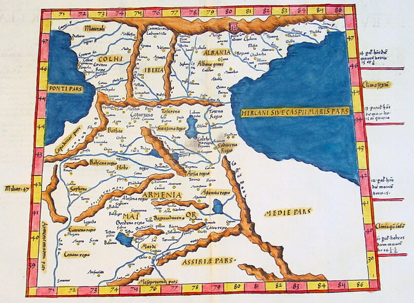 Ptolemy's Third Map of Asia, containing Greater Armenia (Armenia Maior) and the Roman-era Caucasus (Colhi, Iberia, Albania), from the Vienna edition of the Geography produced by Laurent Fries